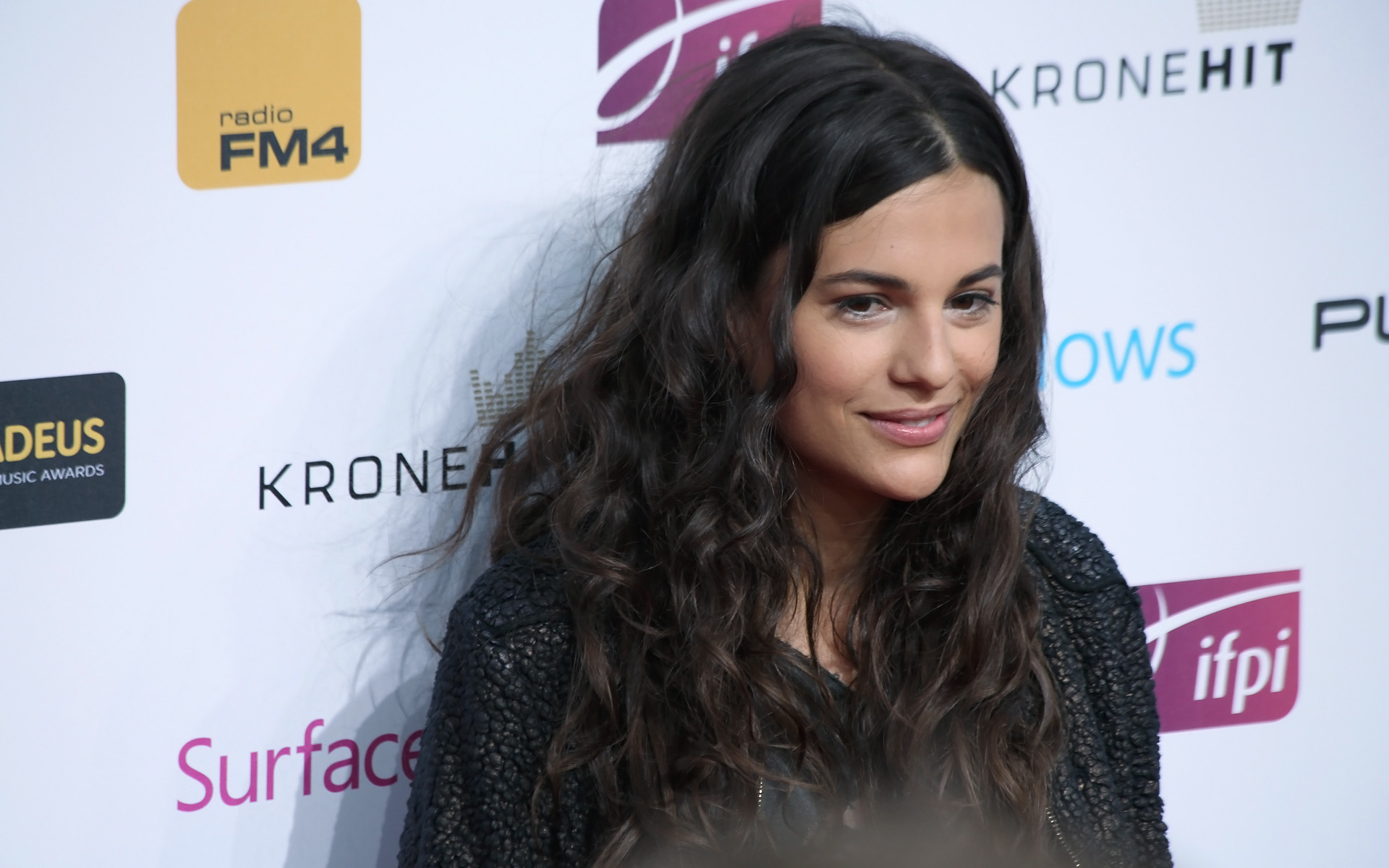 Anna F. at the Amadeus Austrian Music Award 2014 at Volkstheater in Vienna